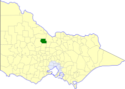 Location of the Shire of East Loddon within Victoria.